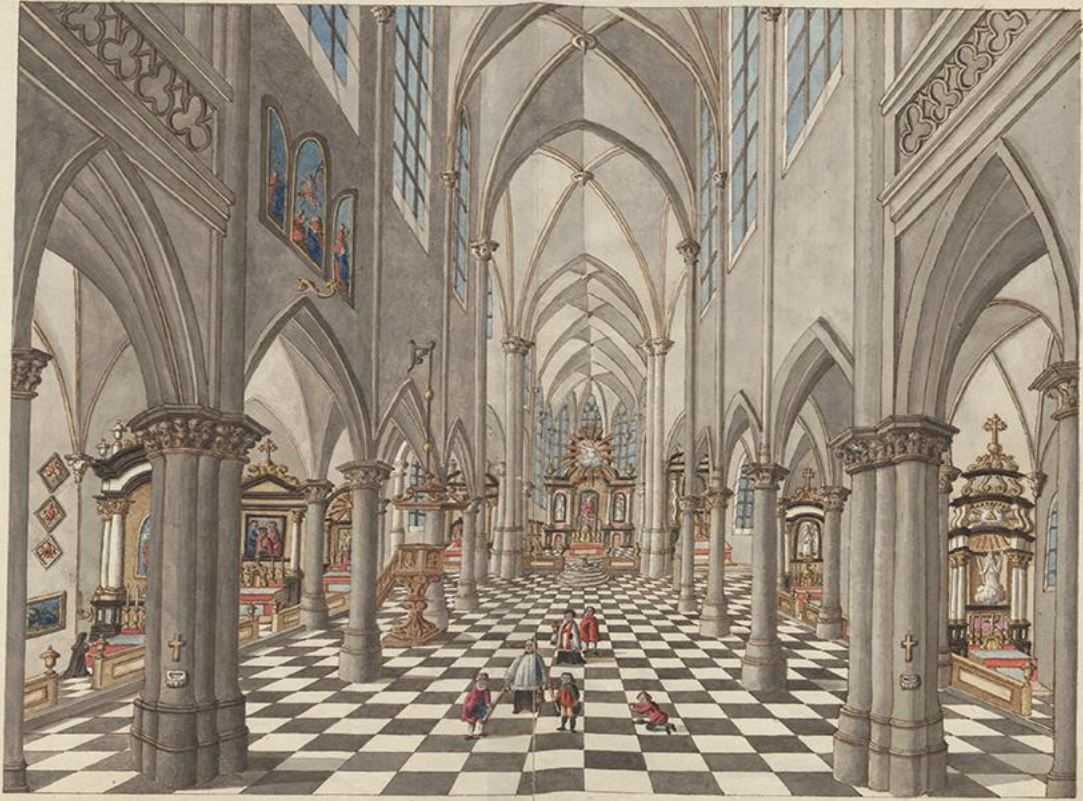 Coloured interior view of the Gaugericus church of Brussels (Archives of the City of Brussels inv. 3407)